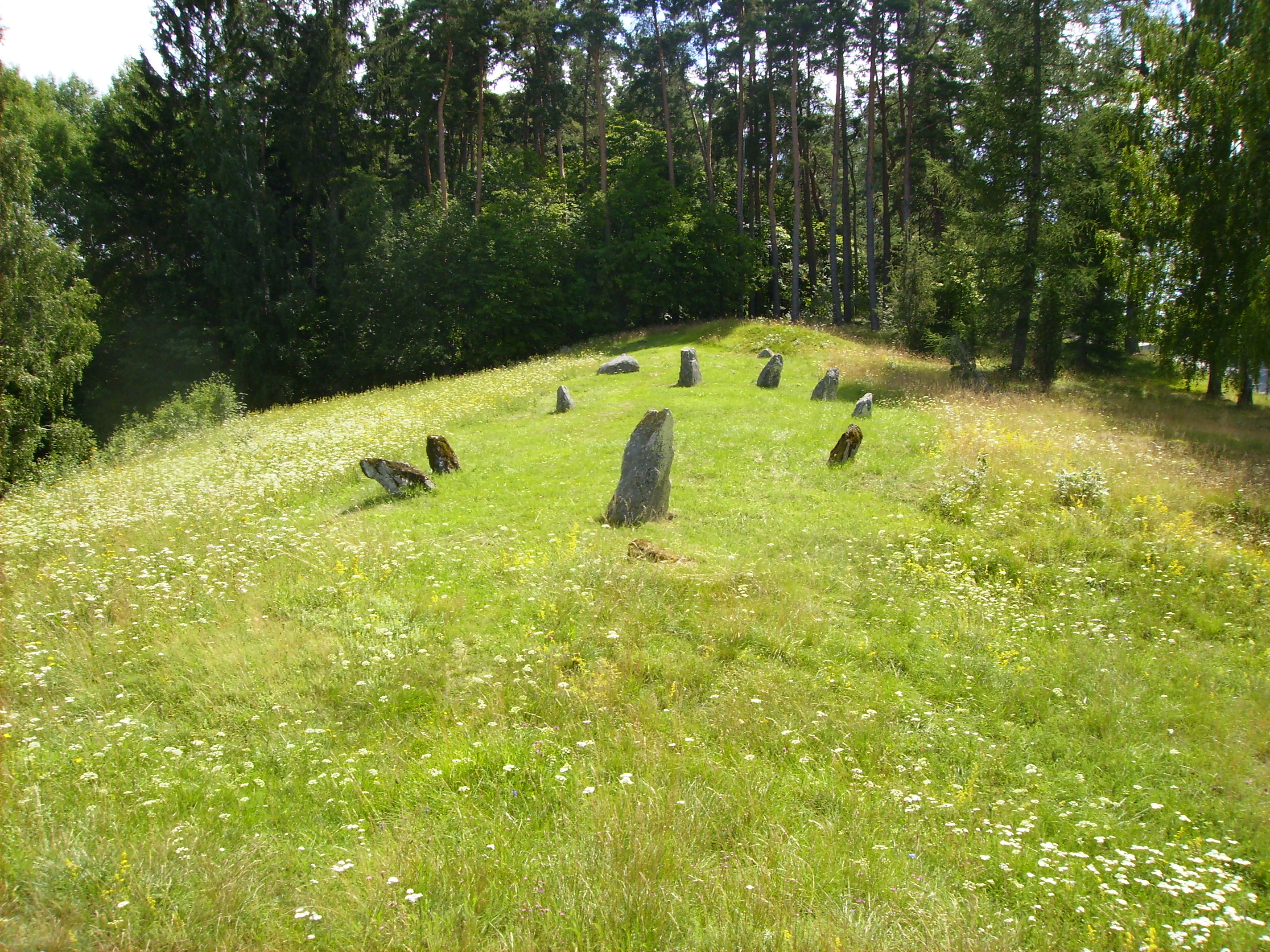 Stone ship in Glanshammar.